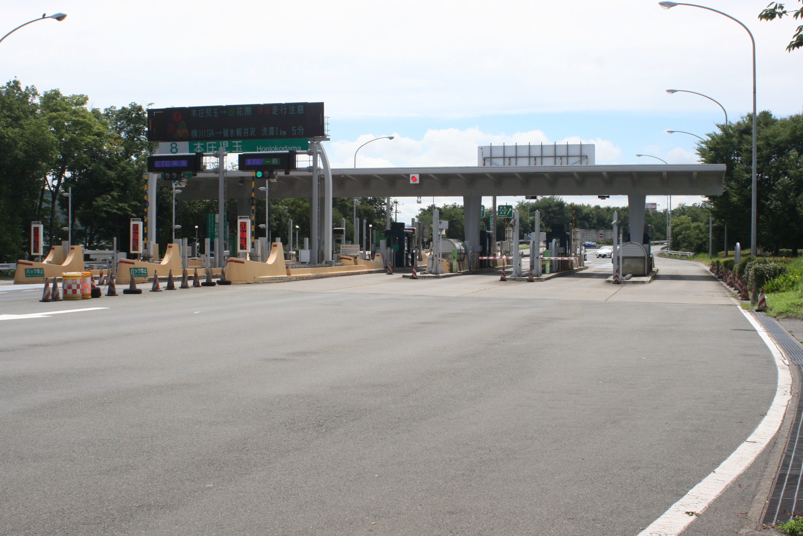 Tollgate of Honjo-Kodama interchange of Kan-etsu expressway